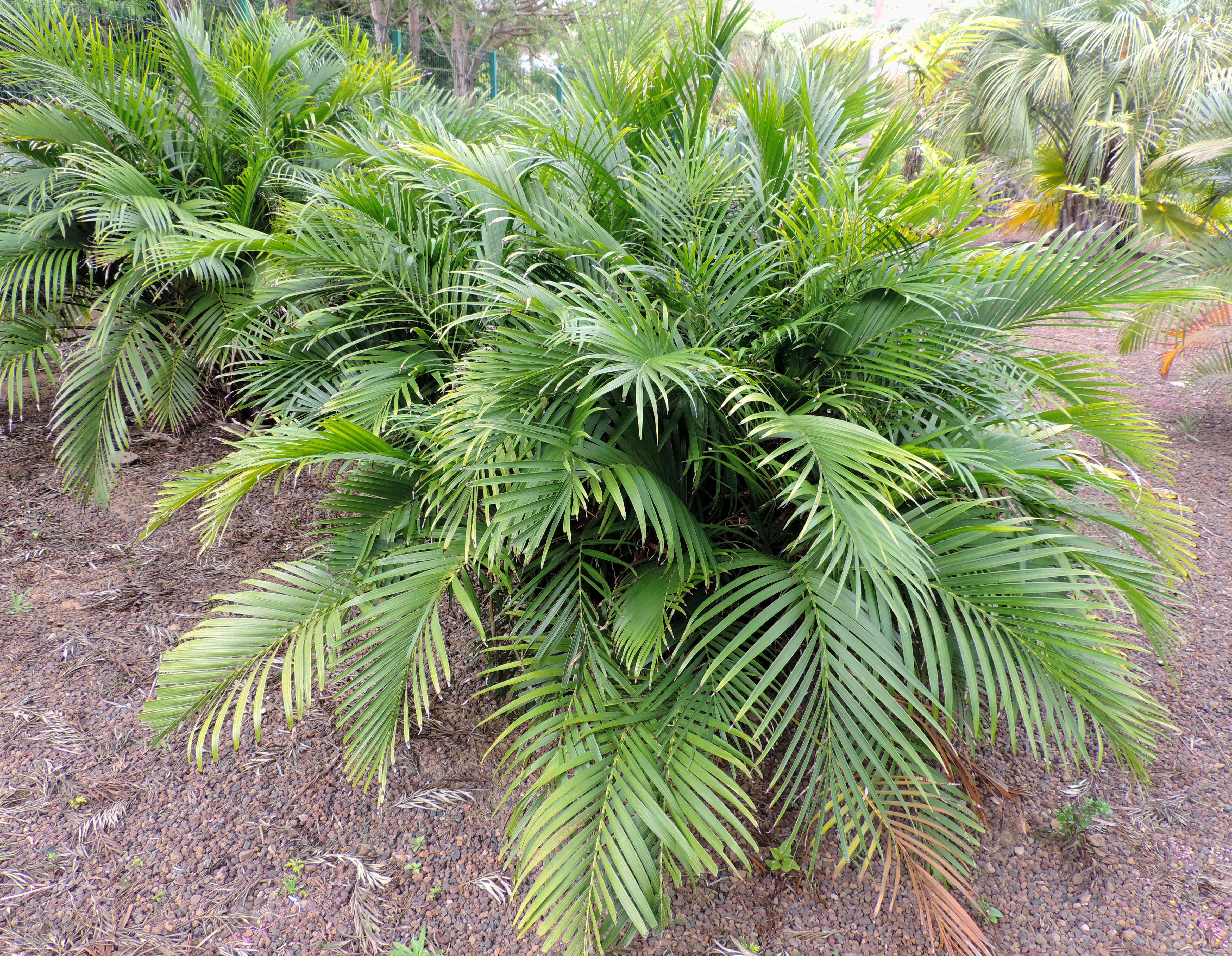 Chamaedorea cataractarum in Jardín Botánico Canario Viera y Clavijo, Gran Canaria